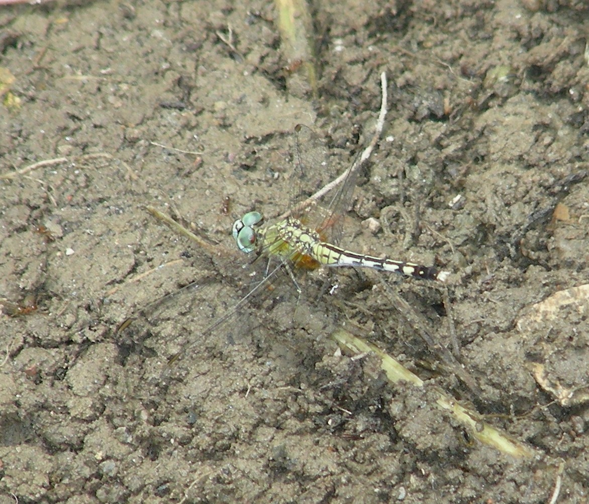 Ground Skimmer, Diplacodes trivialis, Family Libellulidae, Odonata (Dragonflies). Identified with help of - * K.A. Subramaniam, (2005) Dragonflies and Damselflies of Peninsular India - A Field Guide:An e-book of Project Lifescape, Centre) Photographed in Binnaguri, Dooars, Jalpaiguri district, West Bengal.